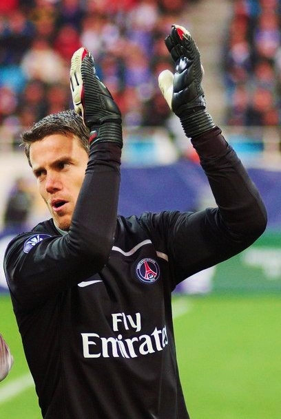 Mickael Landreau